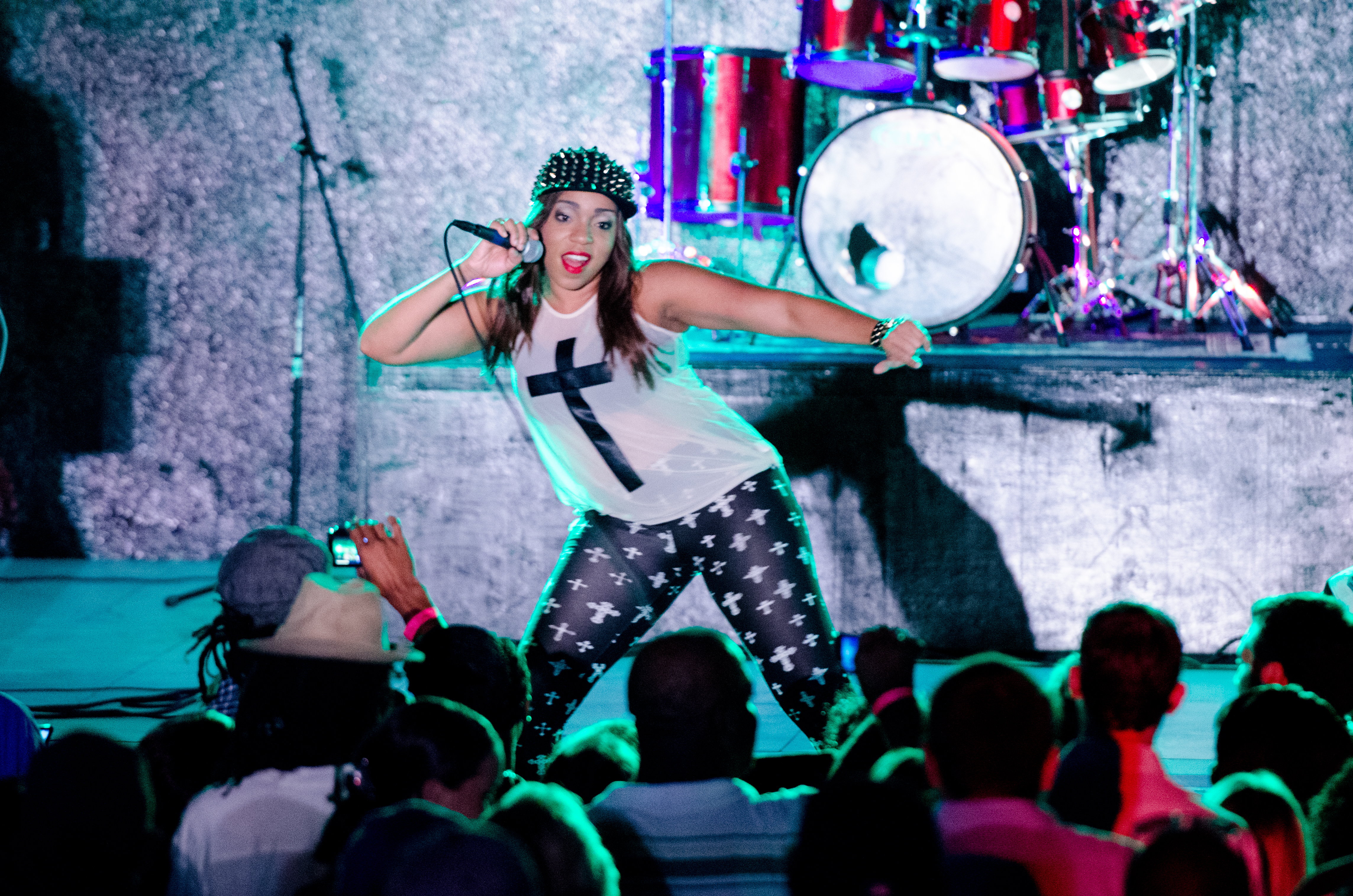 Trinidadian soca singer Destra Garcia, performing in 2013.